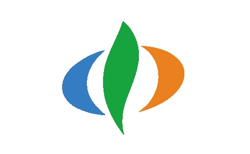 Flag of Chuo Yamanashi